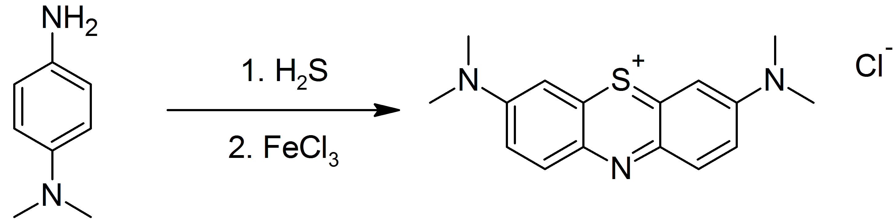 Preparation of methylene blue. (1940). "Semiquinone Radicals of the Thiazines". J. Am. Chem. Soc. 62 (1): 204–211.